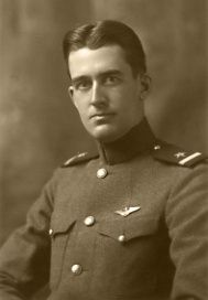 Charles McGhee Tyson